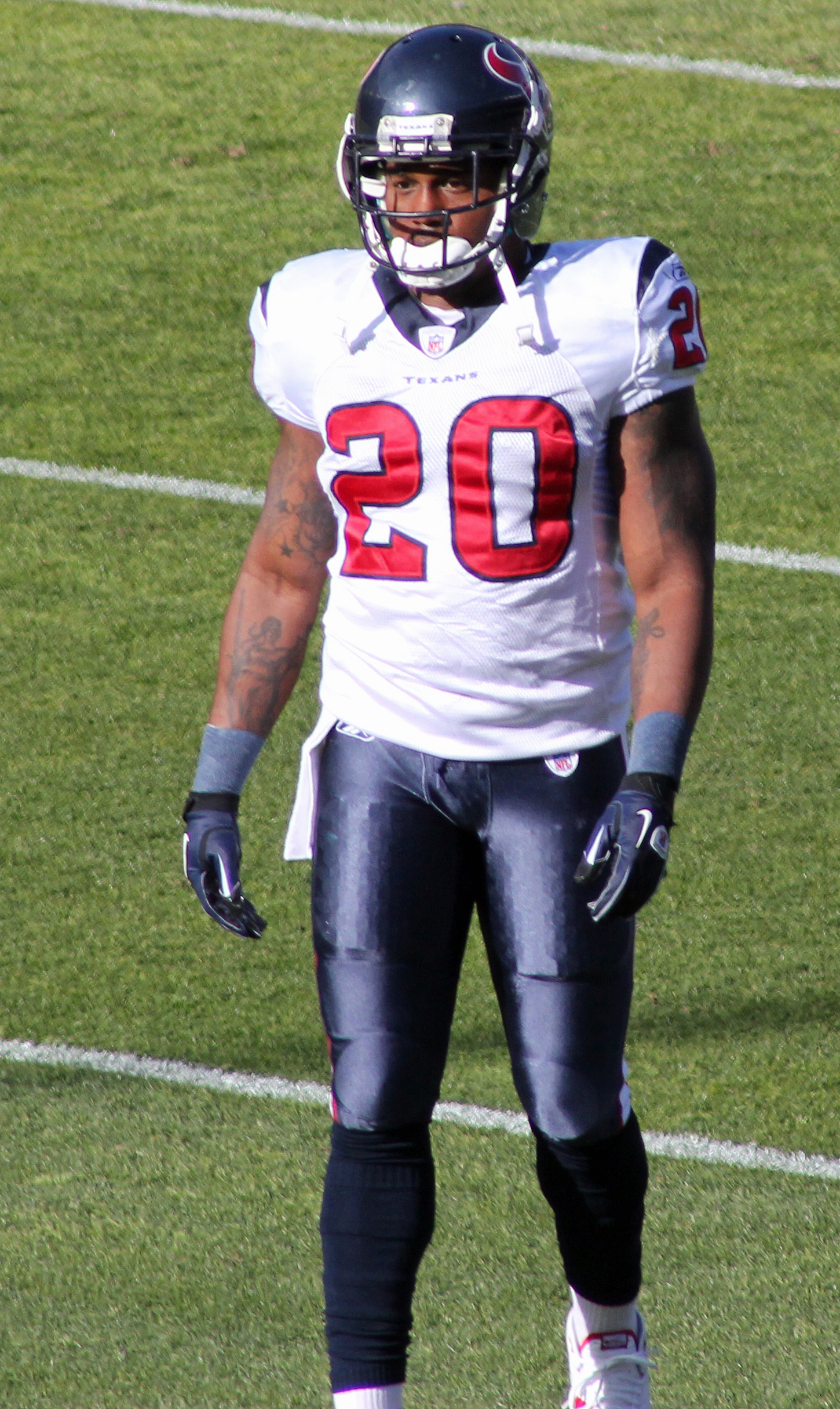 Steve Slaton, a player on the Houston Texans American football team.